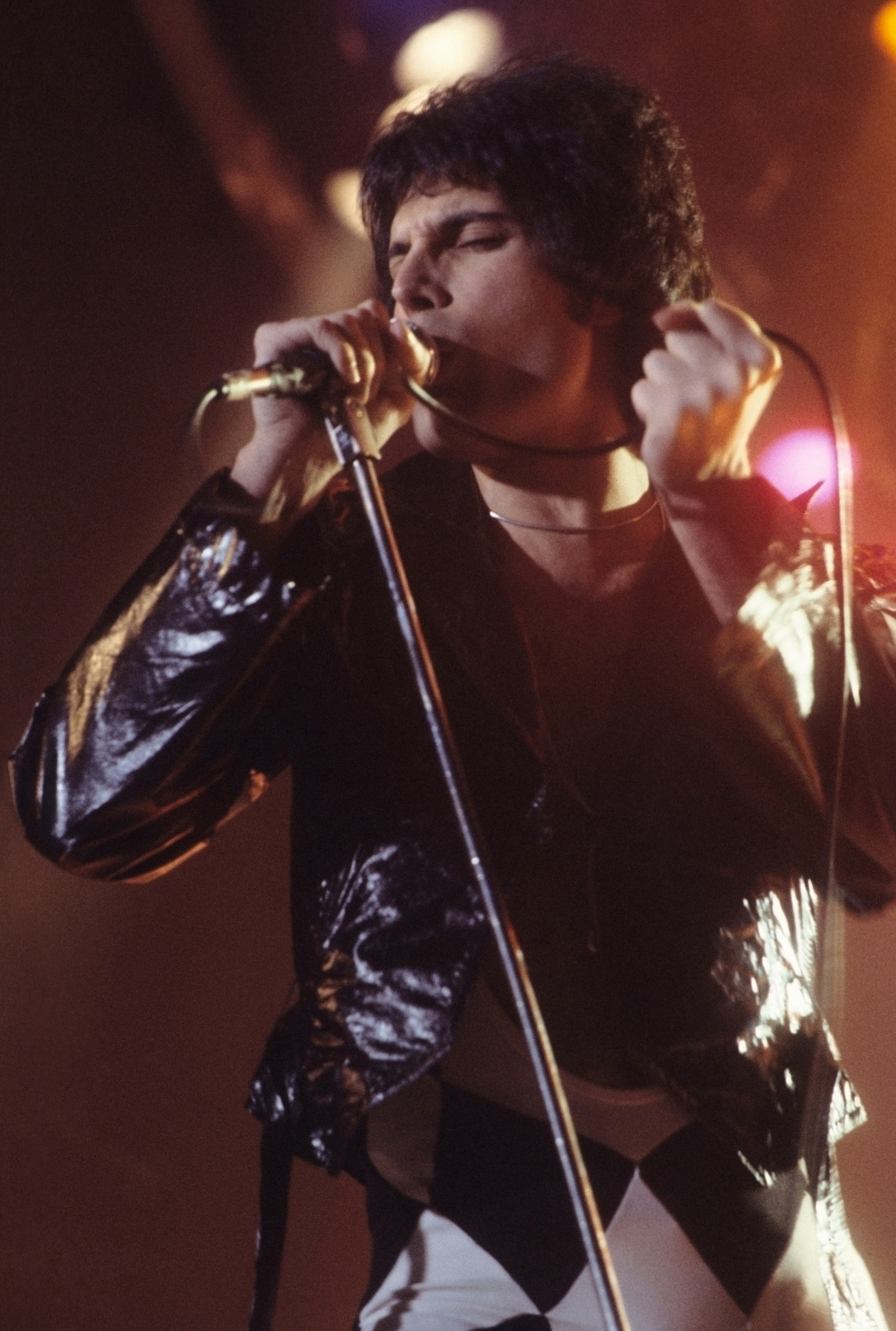 Freddie Mercury in New Haven, CT at a WPLR Show.